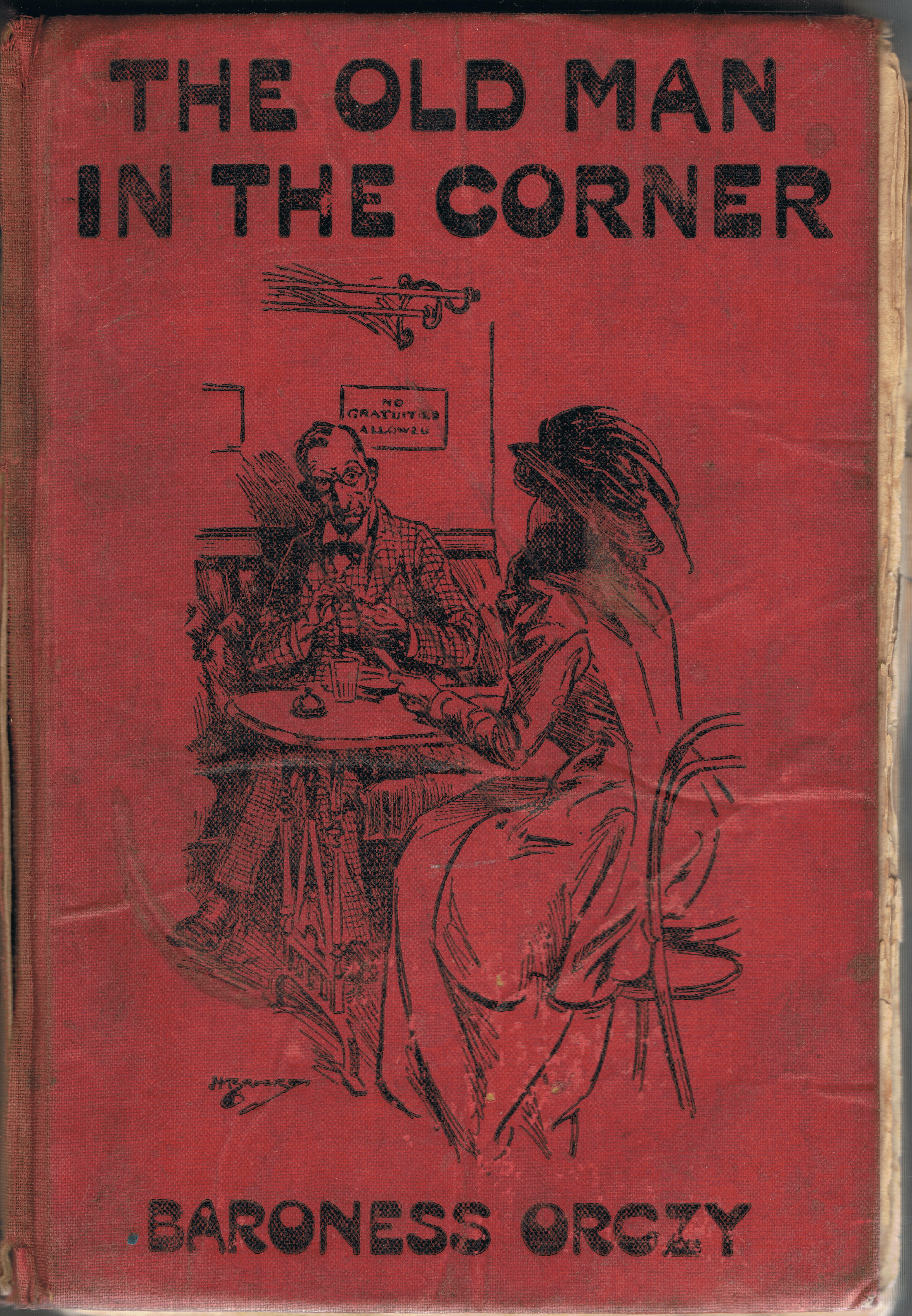 Scan (by me, R. de Salis, Rodolph (talk) 23:17, 6 February 2015 (UTC)) of the cover of Baroness Orczy's THE OLD MAN IN THE CORNER, popular edition, Greening & Co., Ltd., London, 1910. Other information Cover of Baroness Orczy's THE OLD MAN IN THE CORNER, popular edition, Greening & Co., Ltd., London, 1910.